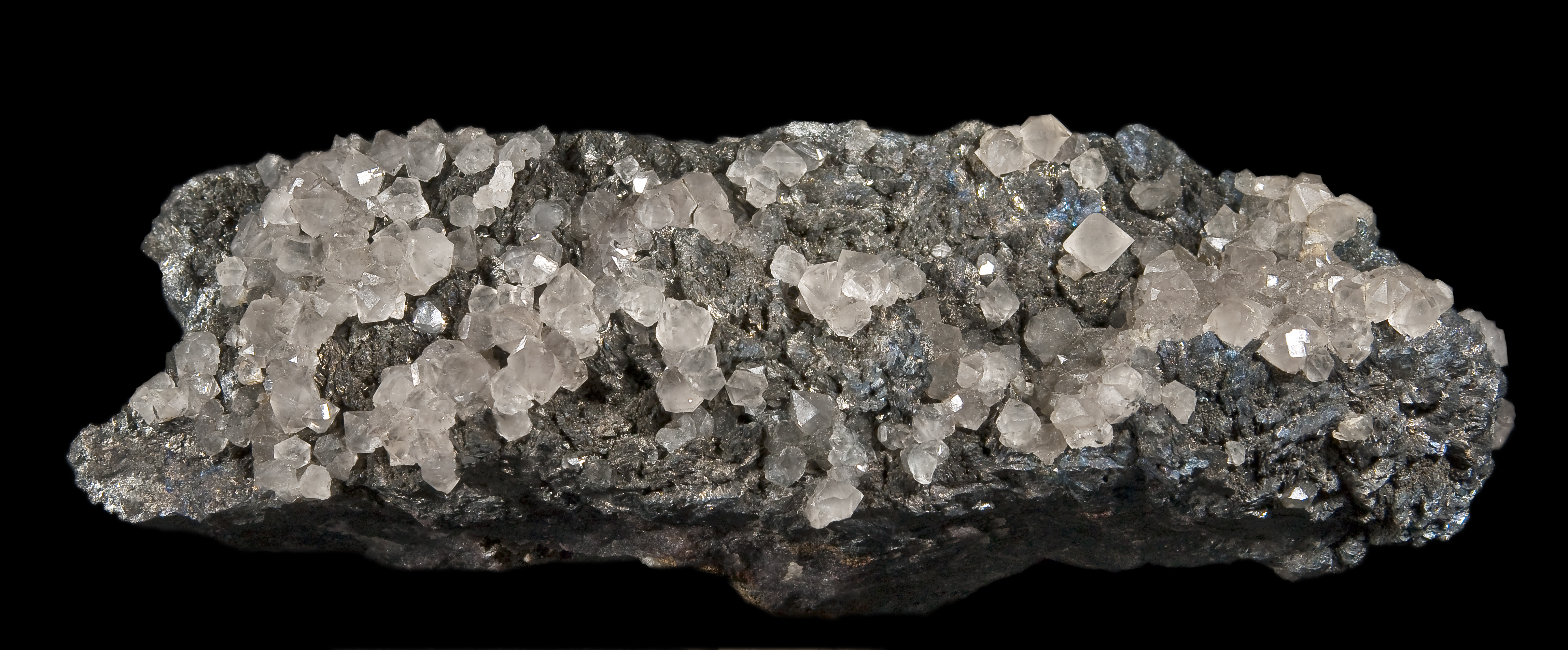 Semseyite Locality: Brioude-Massiac (Massif Central) France (11 cm × 3,5 cm).